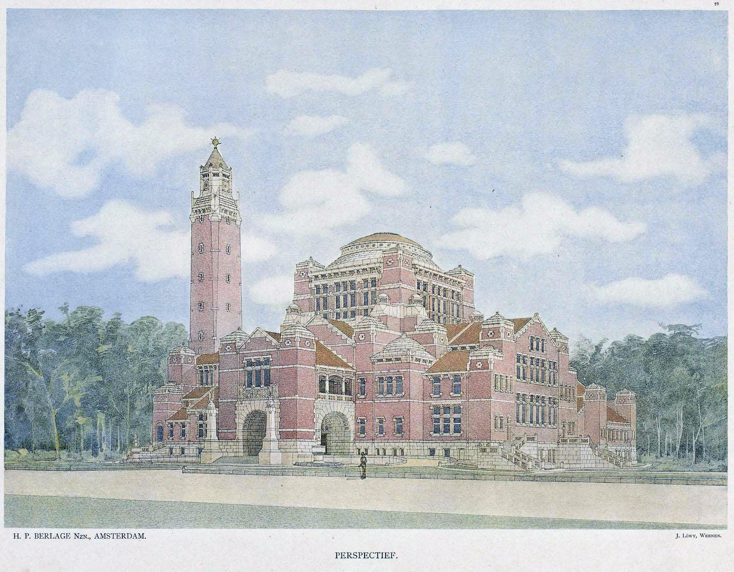 Competition entry for the Peace Palace in The Hague by architect Hendrik Petrus Berlage